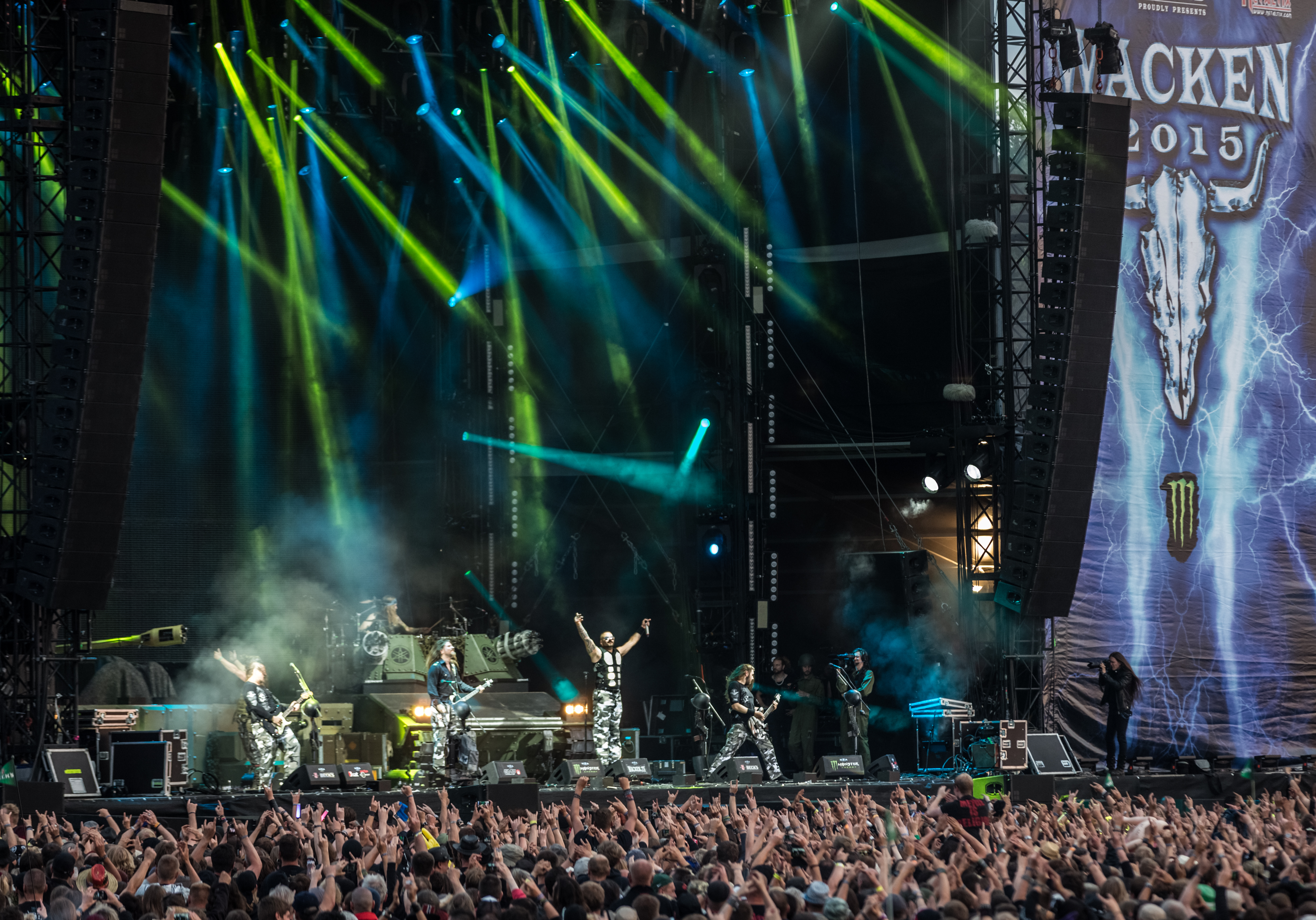 Sabaton - Wacken Open Air 2015